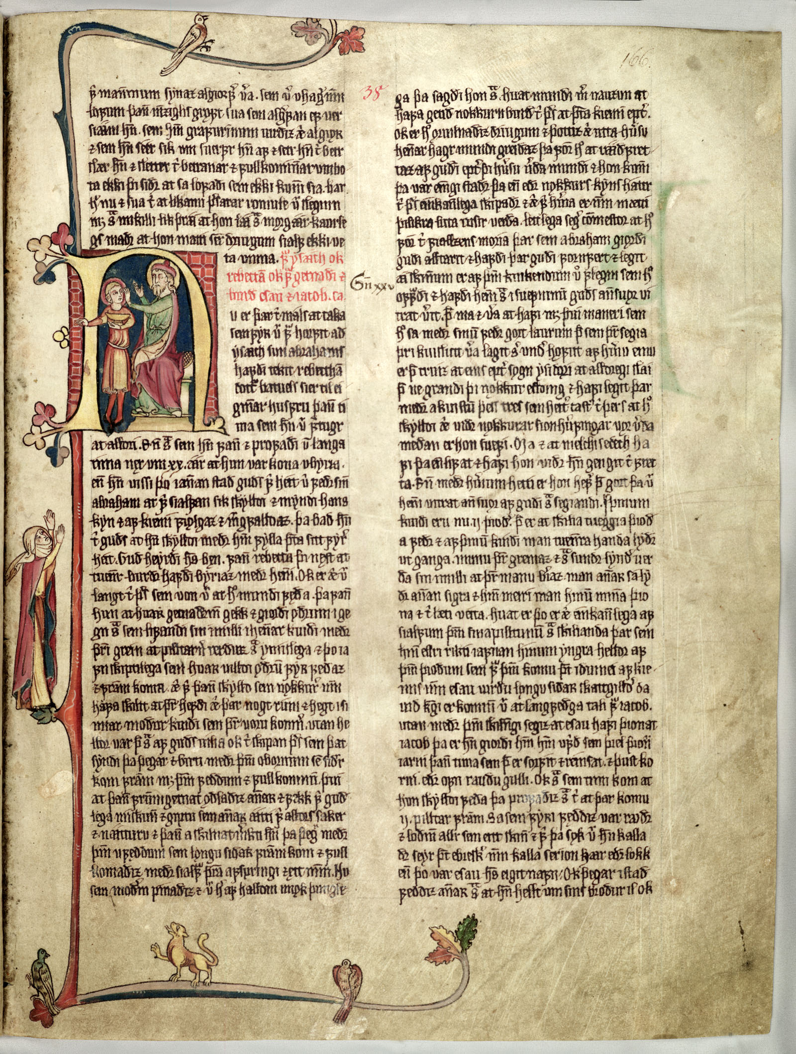 A page from Stjórn, a mediaeval Norwegian Bible translation. (AM 227 fol, bl. 38r.)